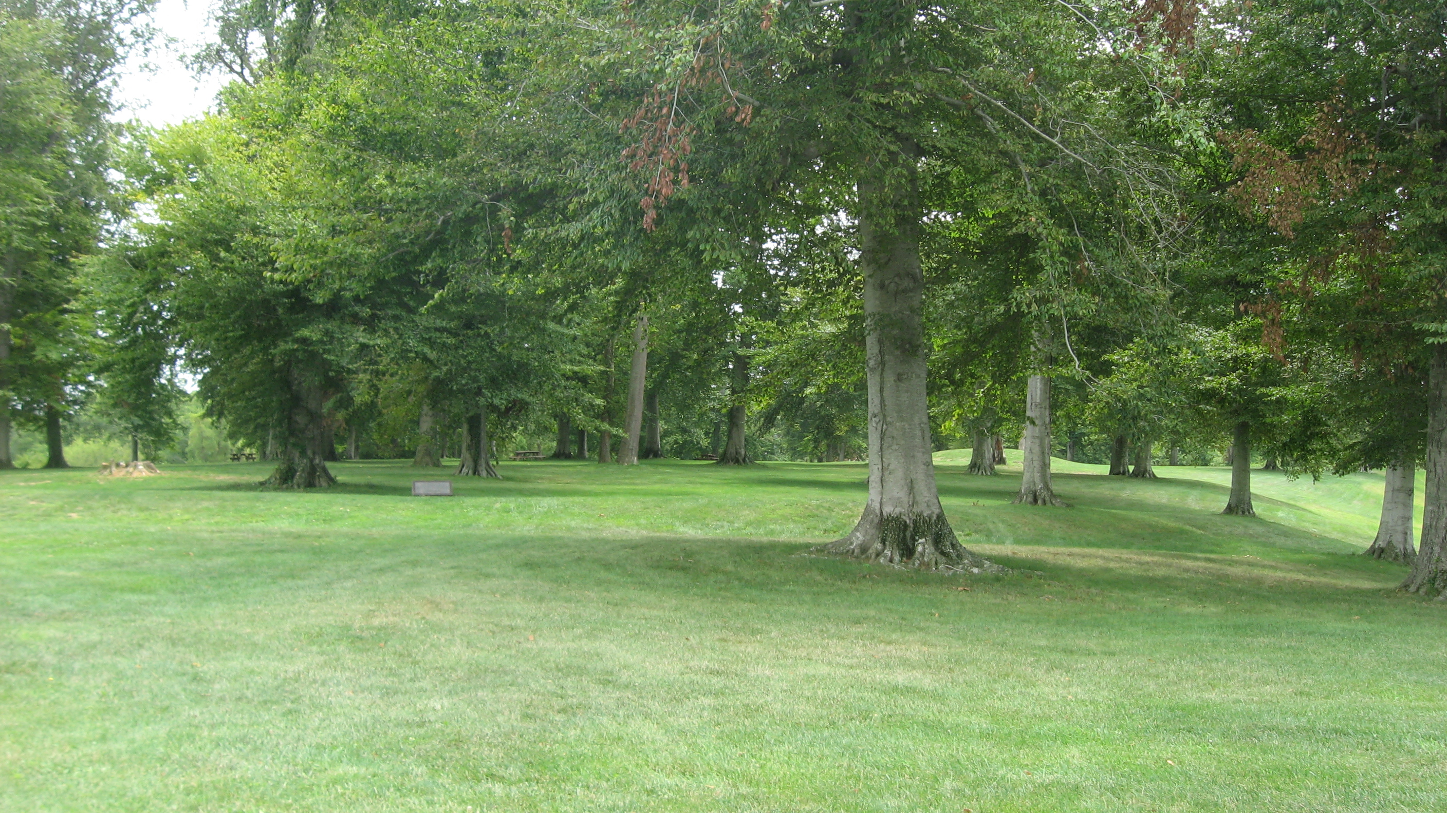 Comprehensive view from the north of the Workman Works (also known as the "Fort Salem Indian Mound"), located at 4206 Certier Road in Salem Township, Highland County, Ohio, United States. Built by prehistoric Hopewellian peoples, it is an archaeological site and listed on the National Register of Historic Places.